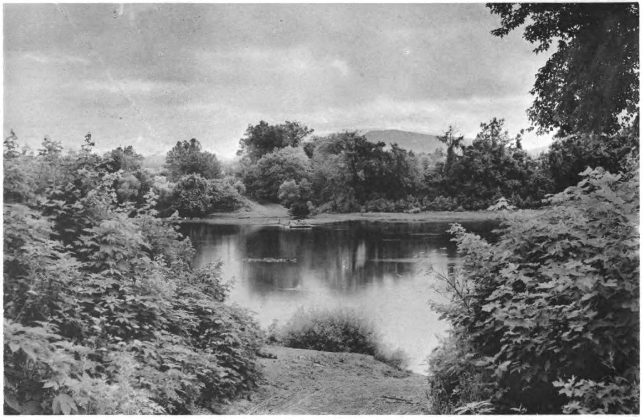 Plate I of 1898 publication called Maryland Geological Survey Volume Two, with caption "The Potomac River, near Cherry Run. At the Junction of the Western Maryland and Baltimore & Ohio Railroads."